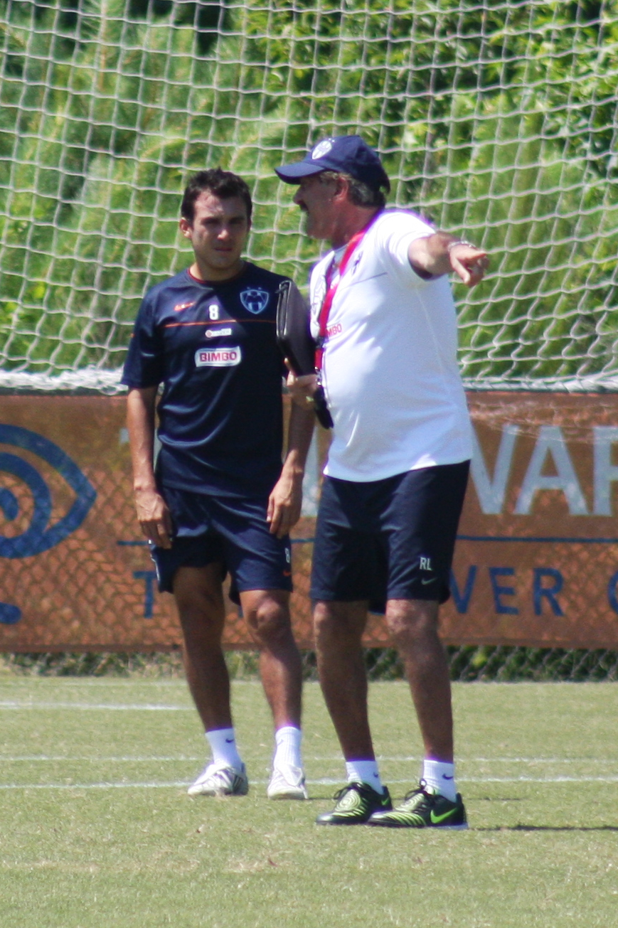 Luis Ernesto Pérez (left) and Ricardo Lavolpe (right) of CF Monterrey